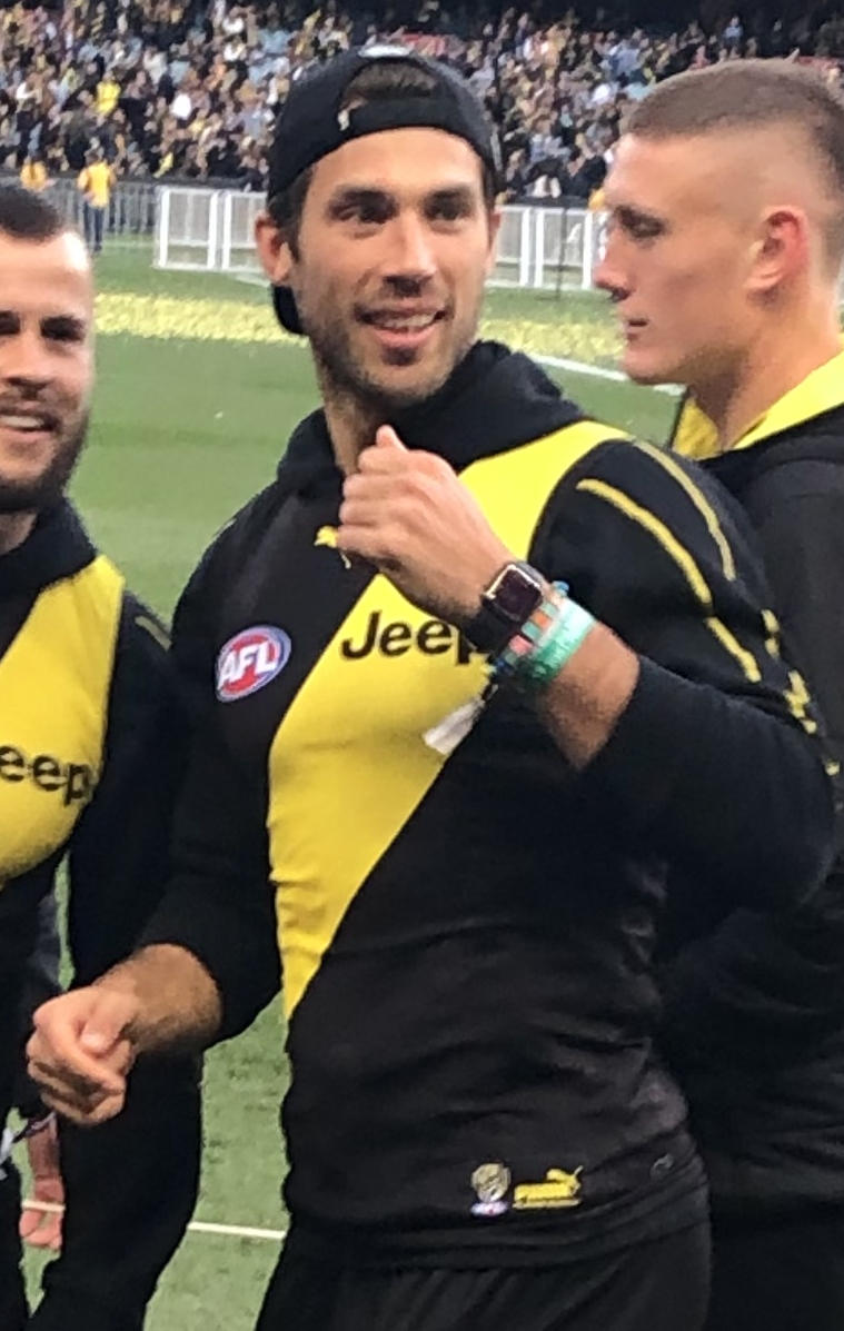 Alex Rance at the 2019 AFL Grand Final